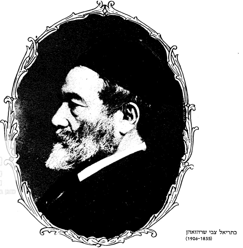 Portrait of Rabbi KS Sorozohn